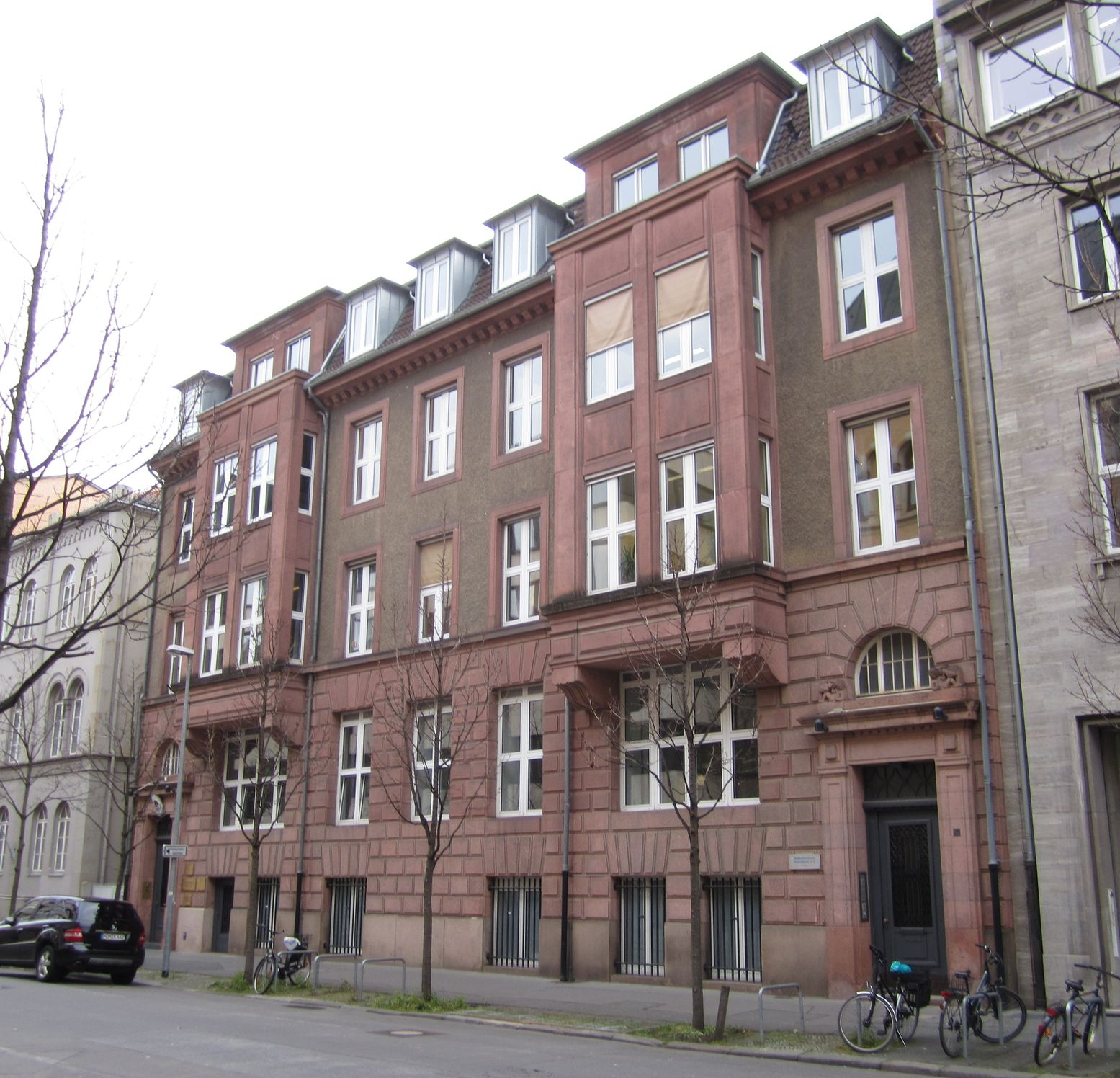 Office of Niedersächsischer Heimatbund e.V. (Lower Saxony Homeland Organization), Hanover, Germany.